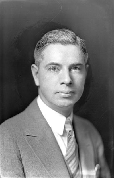 Representative E. J. Templeton